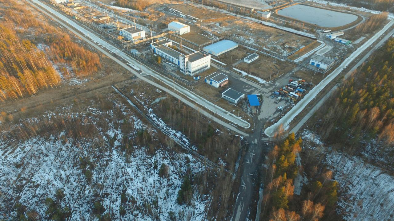 The road to Krasny Bor landfill, 2015